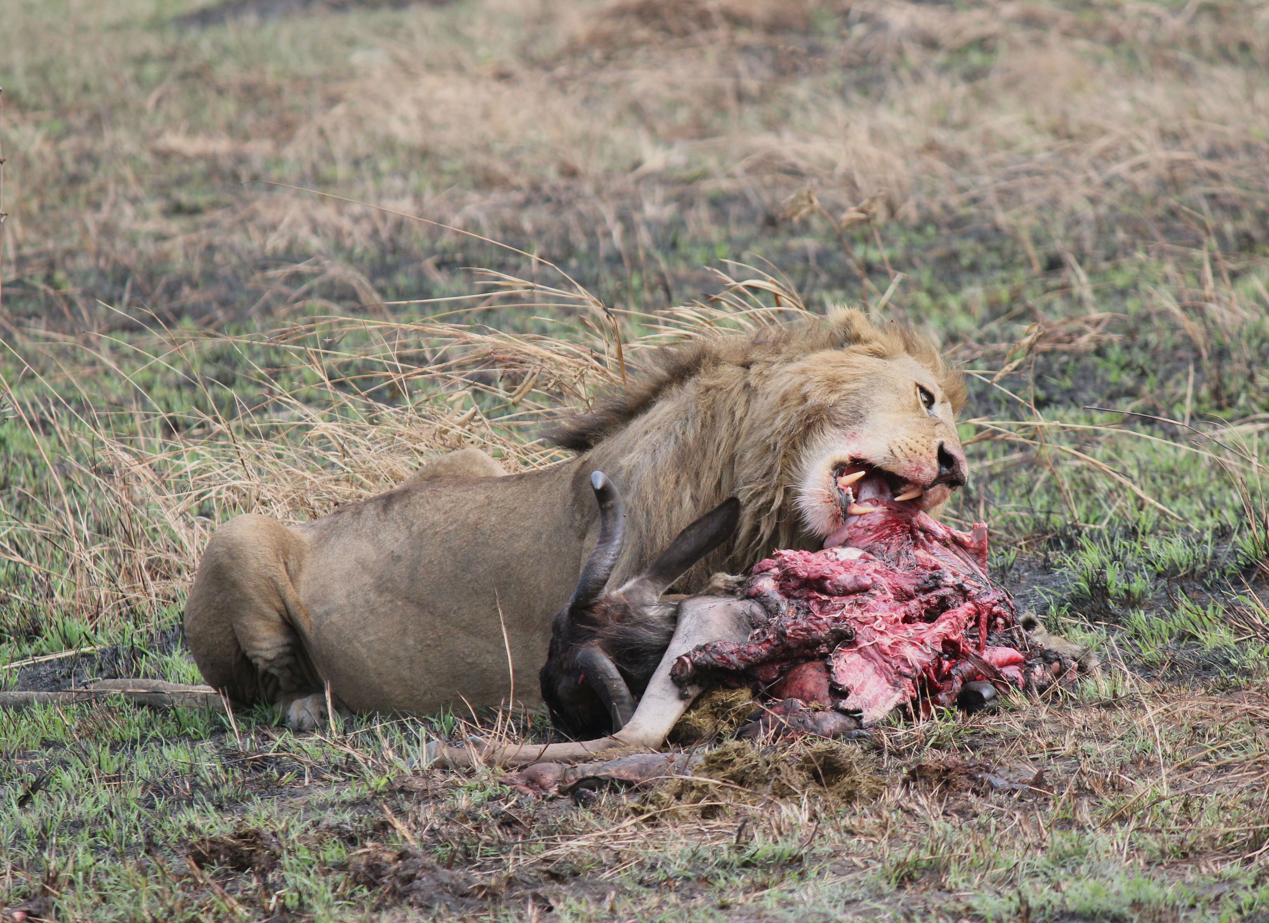 Male Panter leo feeding on wildebeest in Mara Triangle, Masai Mara Wilderness Reserve.